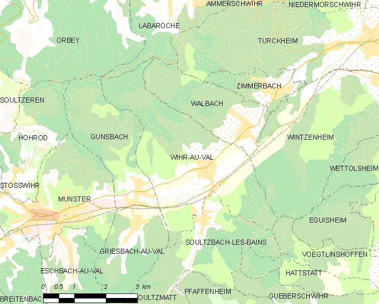 Map of French municipality